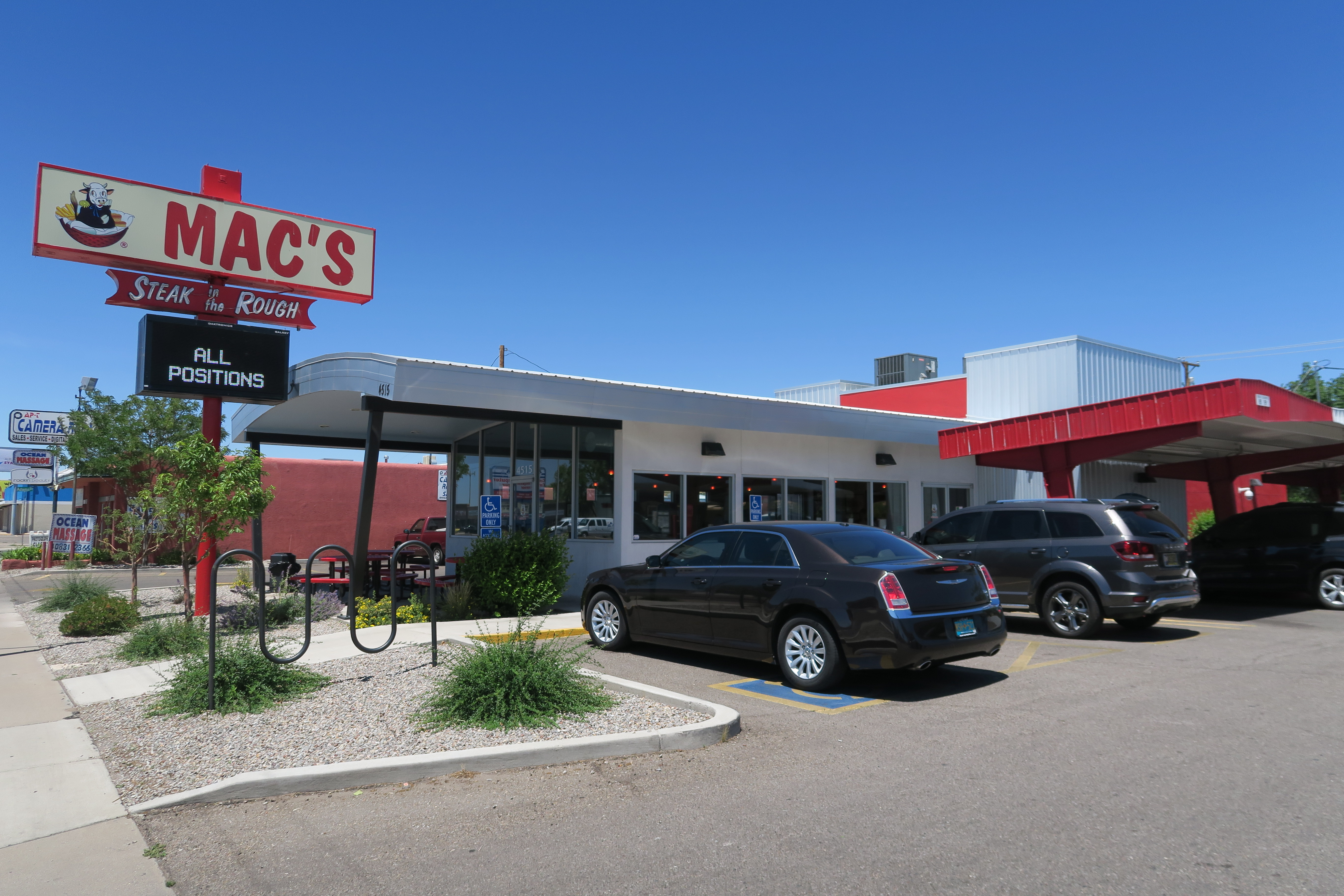 Macs Steak in the Rough, Albuquerque New Mexico